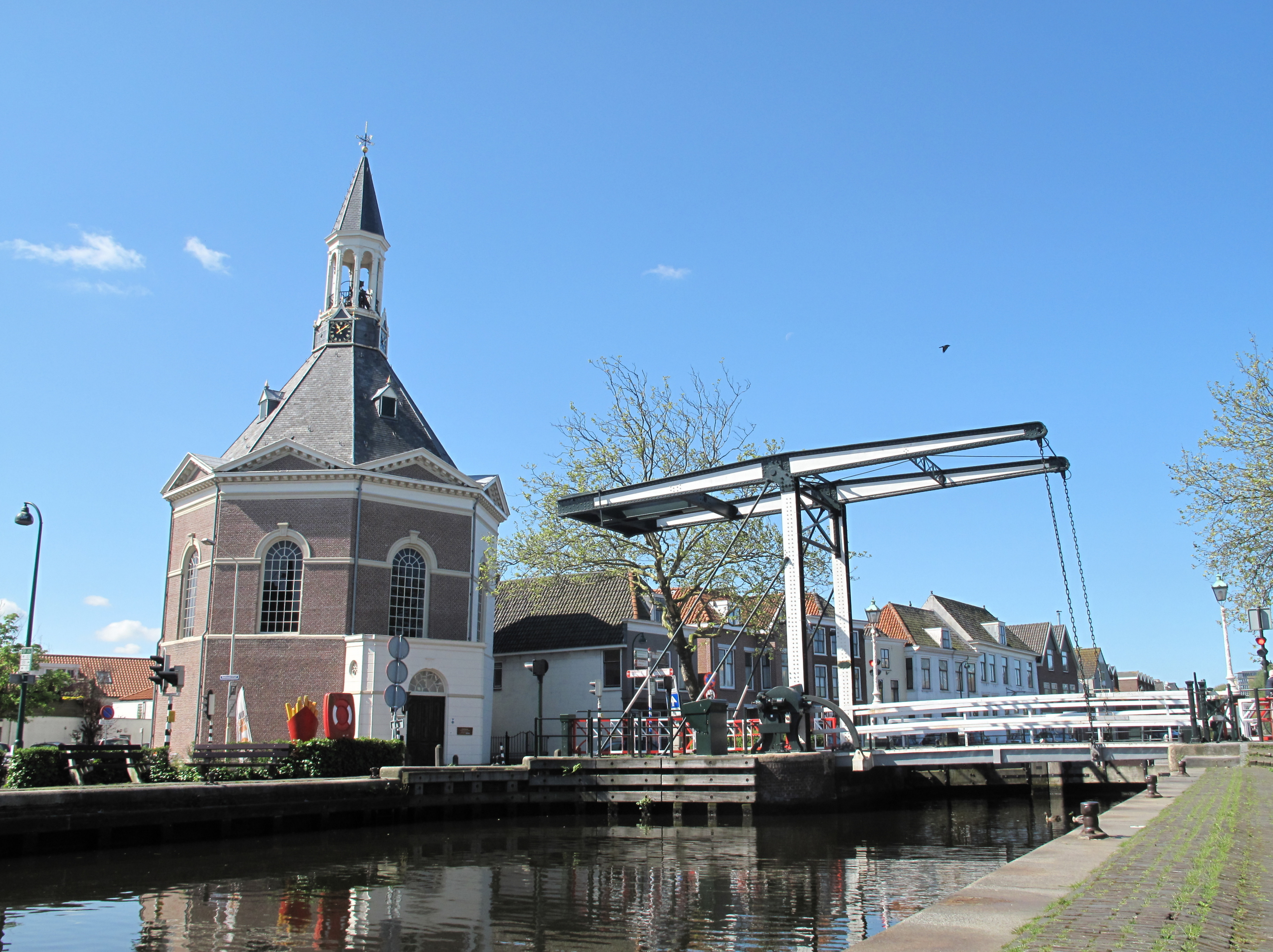 Leidschendam, reformed church (RM25706) and drawing bridge (RM385566)